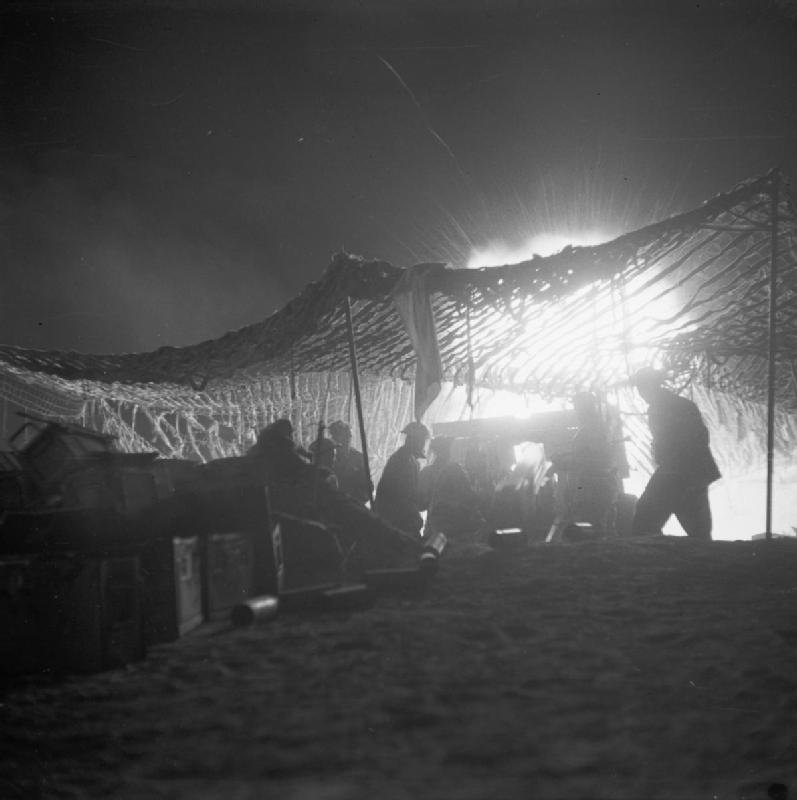 The British Army in Tunisia 1943 A 25-pdr field gun in action at night during the assault on the Mareth line, 30 March 1943.